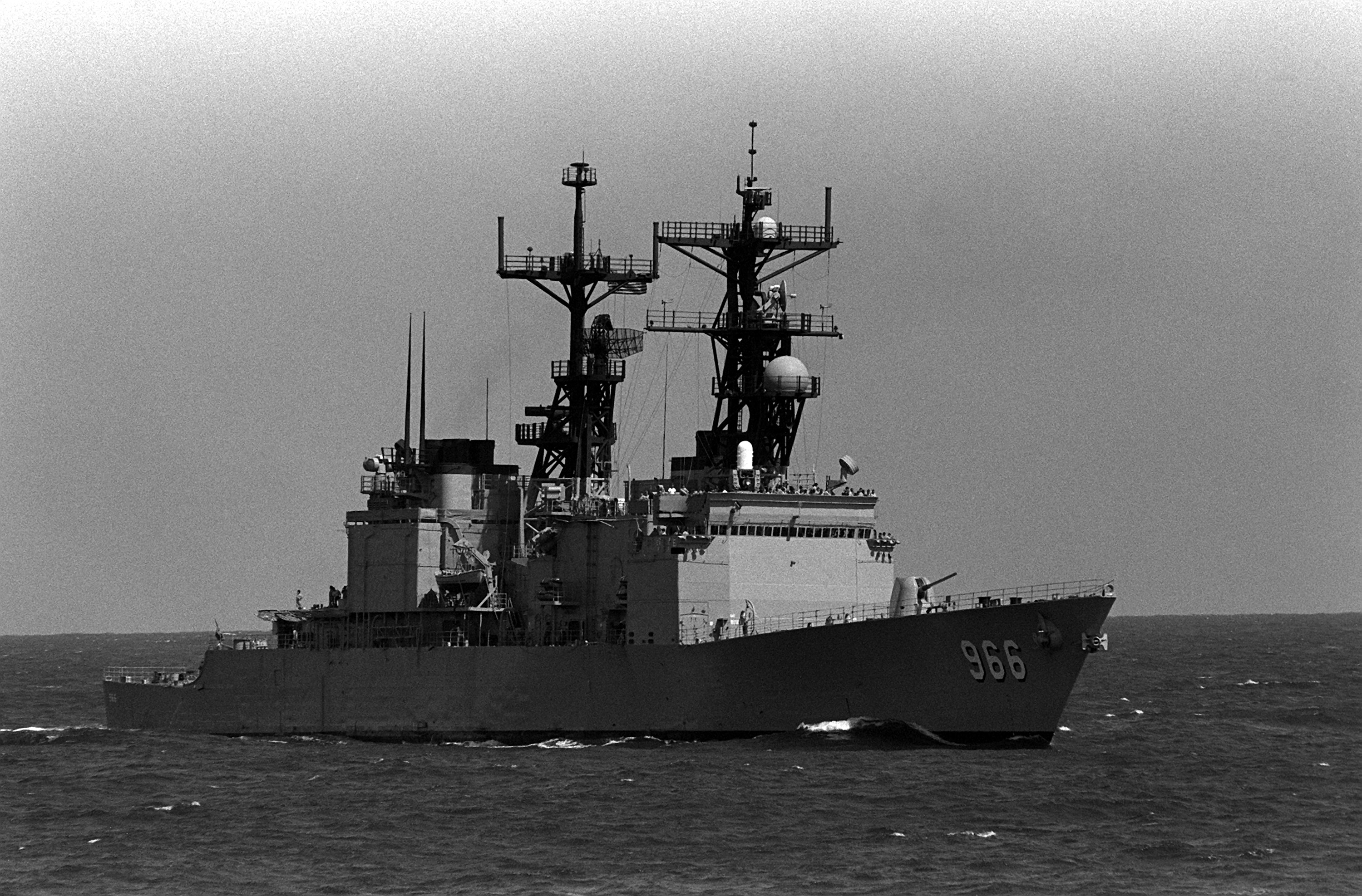 A starboard bow view of the destroyer USS HEWITT (DD-966) underway during Fleet Exercise '89.